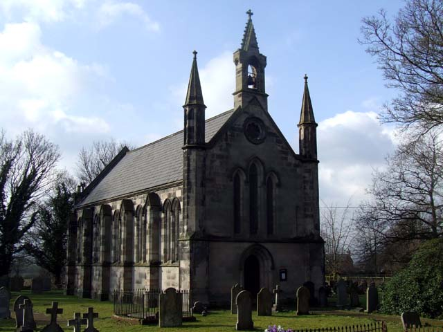 St Jude's parish church, Tilstone Fearnall, Cheshire, seen from the northeast